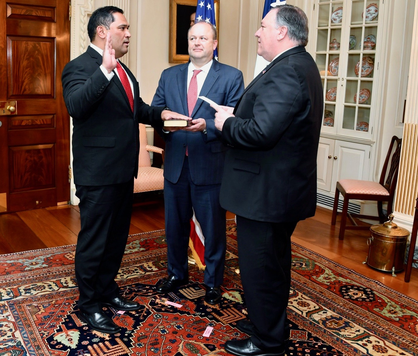 U.S. Secretary of State Michael R. Pompeo swears in Brian Bulatao as the new Under Secretary of State for Management at the U.S. Department of State in Washington, D.C., on May 17, 2019. [State Department photo by Michael Gross/ Public Domain]